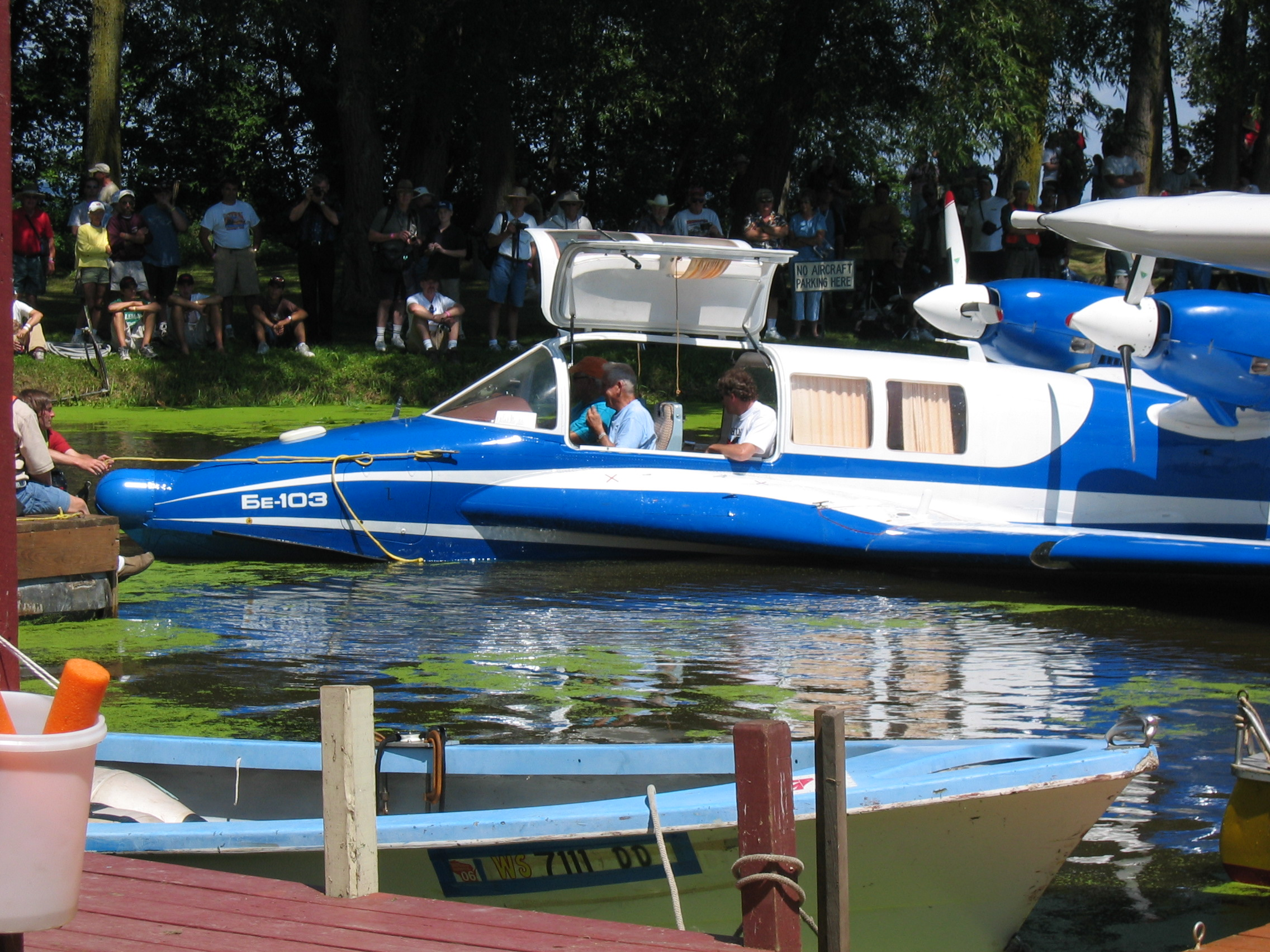 Beriev Be-103 at EAA Convention Oshkosh 2004